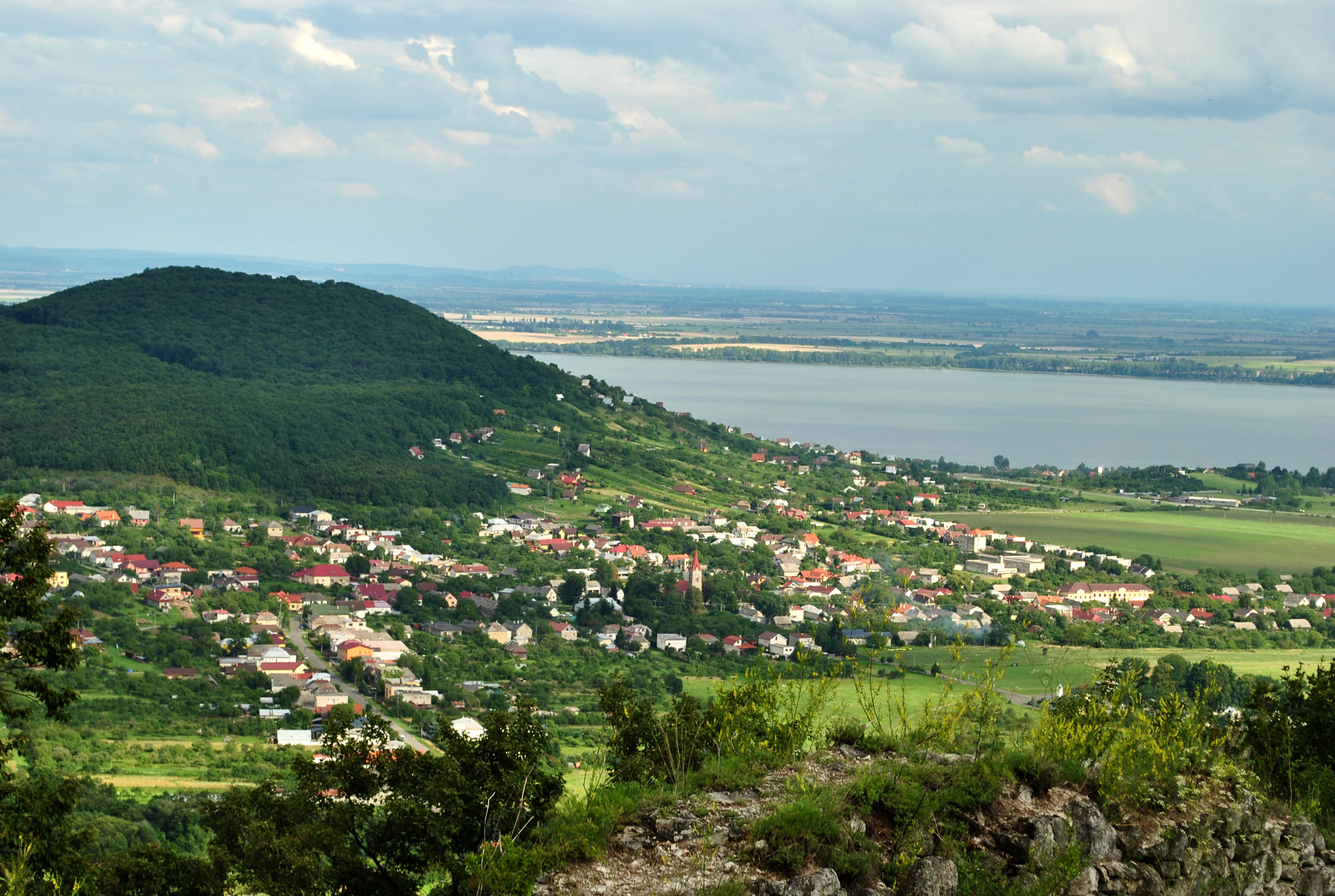 View of Vinné from the castle of Vinné